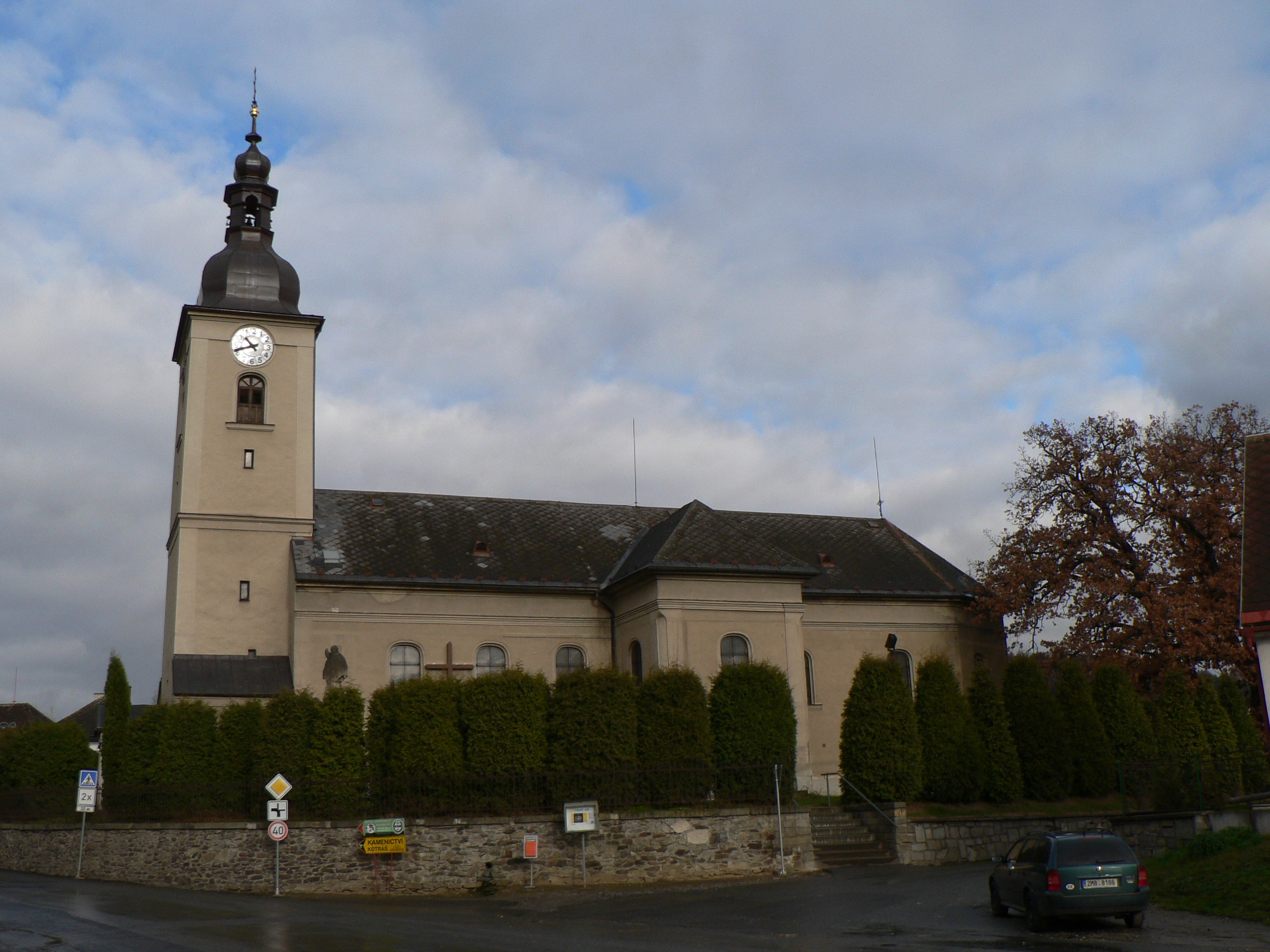 Bludov, Šumperk District, Czechia. Church of Saint George.